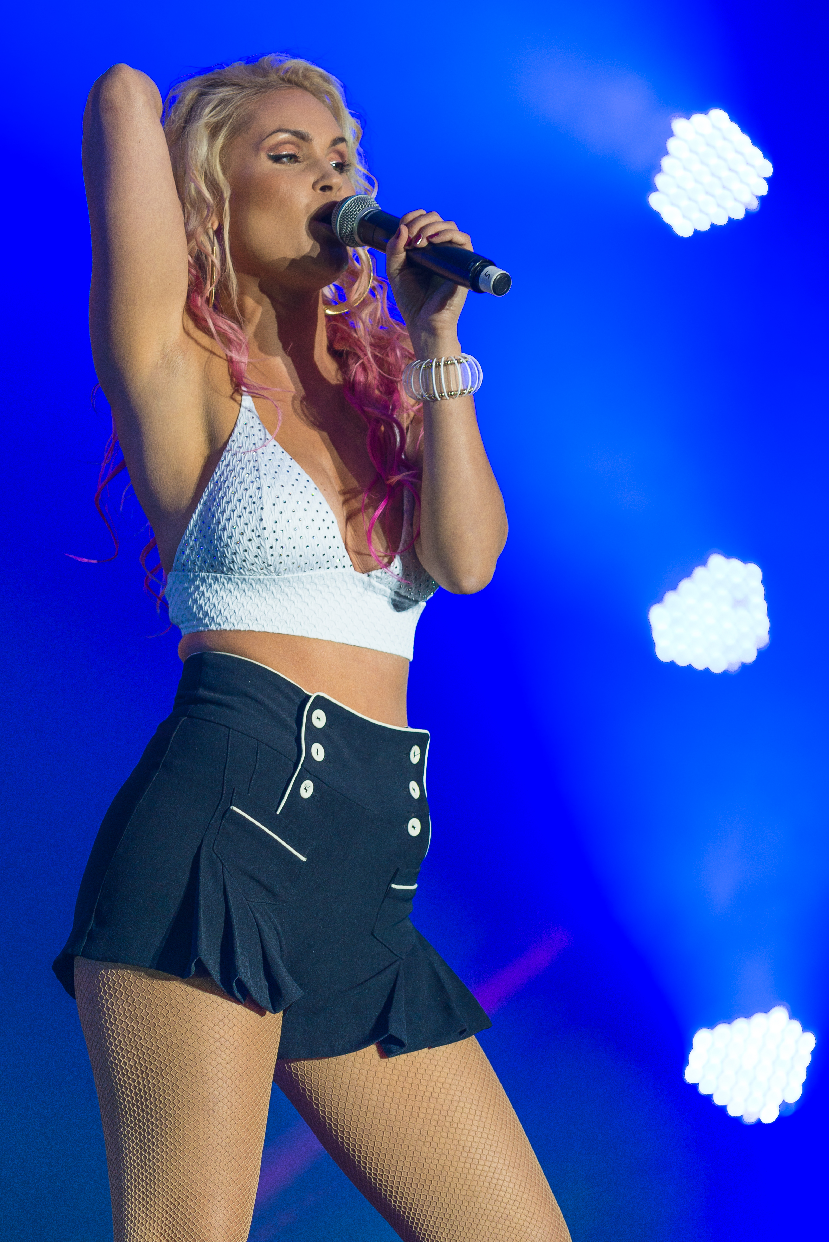 Dinah Nah at Stockholm Pride 2015